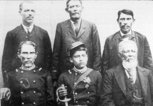 King William Henry Clarence of the Miskito